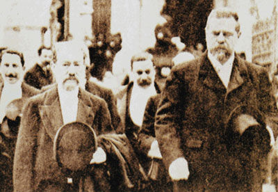 Former President Germán Riesco and Abdón Cifuentes, leaving National Congress after handing power to his successor.